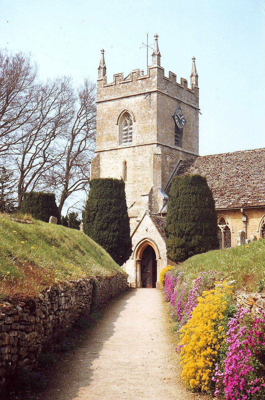 St. Peter's, Upper Slaughter, Glos. A quintessentially English sceene. A Cotswold churchyard in Spring...